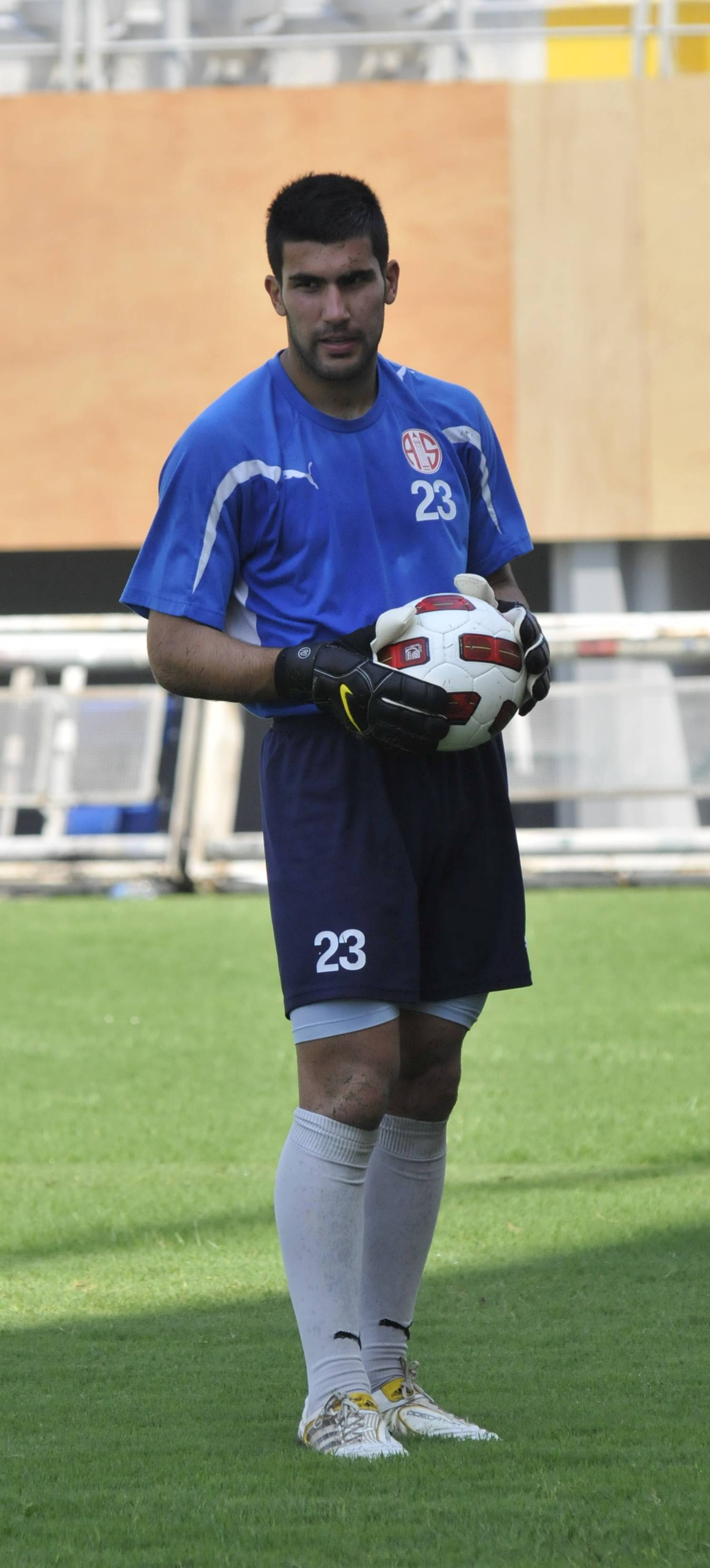 Photo : Murat Özgen